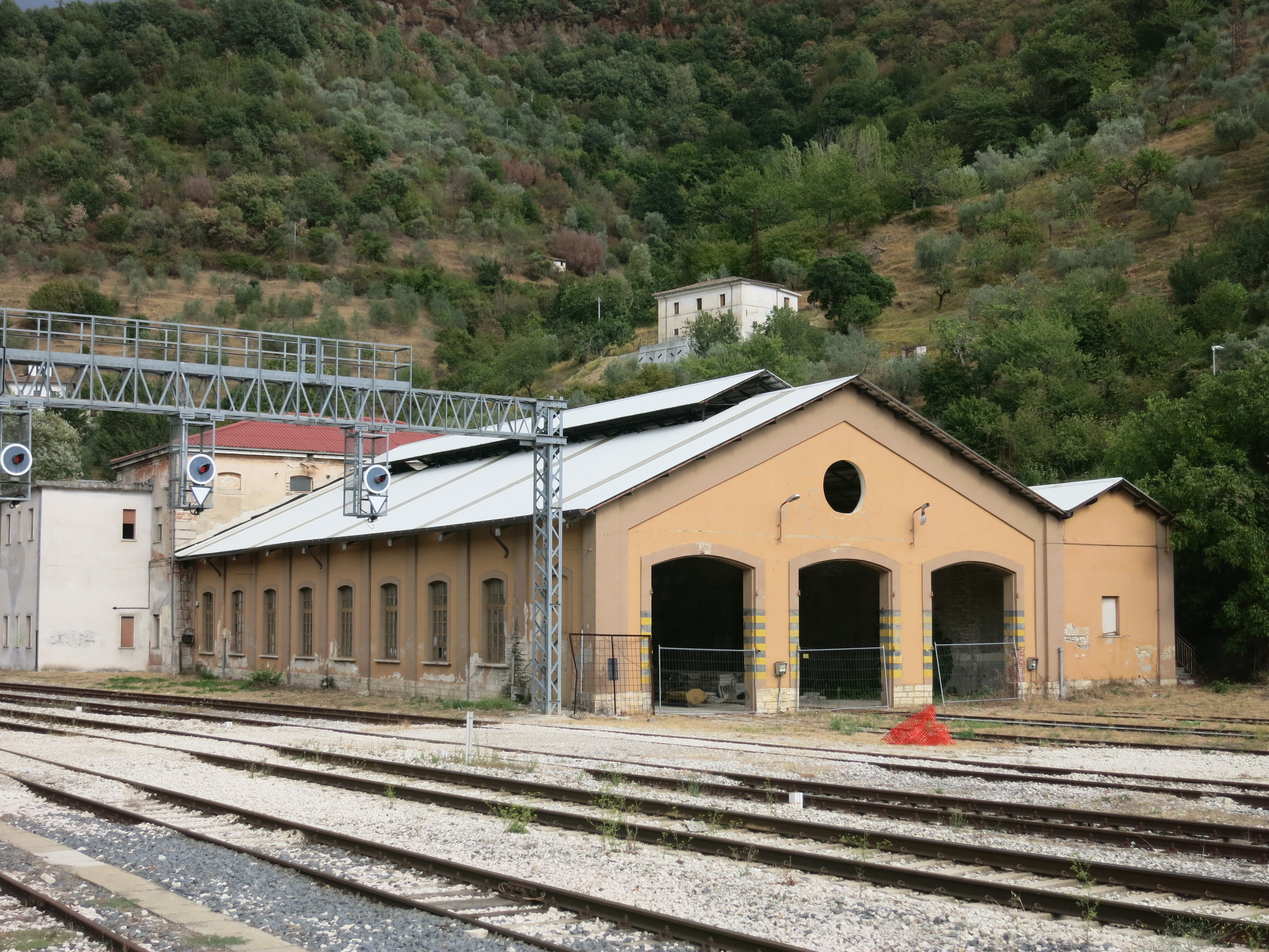 The depot in the Antrodoco-Borgo Velino train station (province of Rieti, Lazio, Italy), on the Terni-Rieti-L'Aquila-Sulmona line.